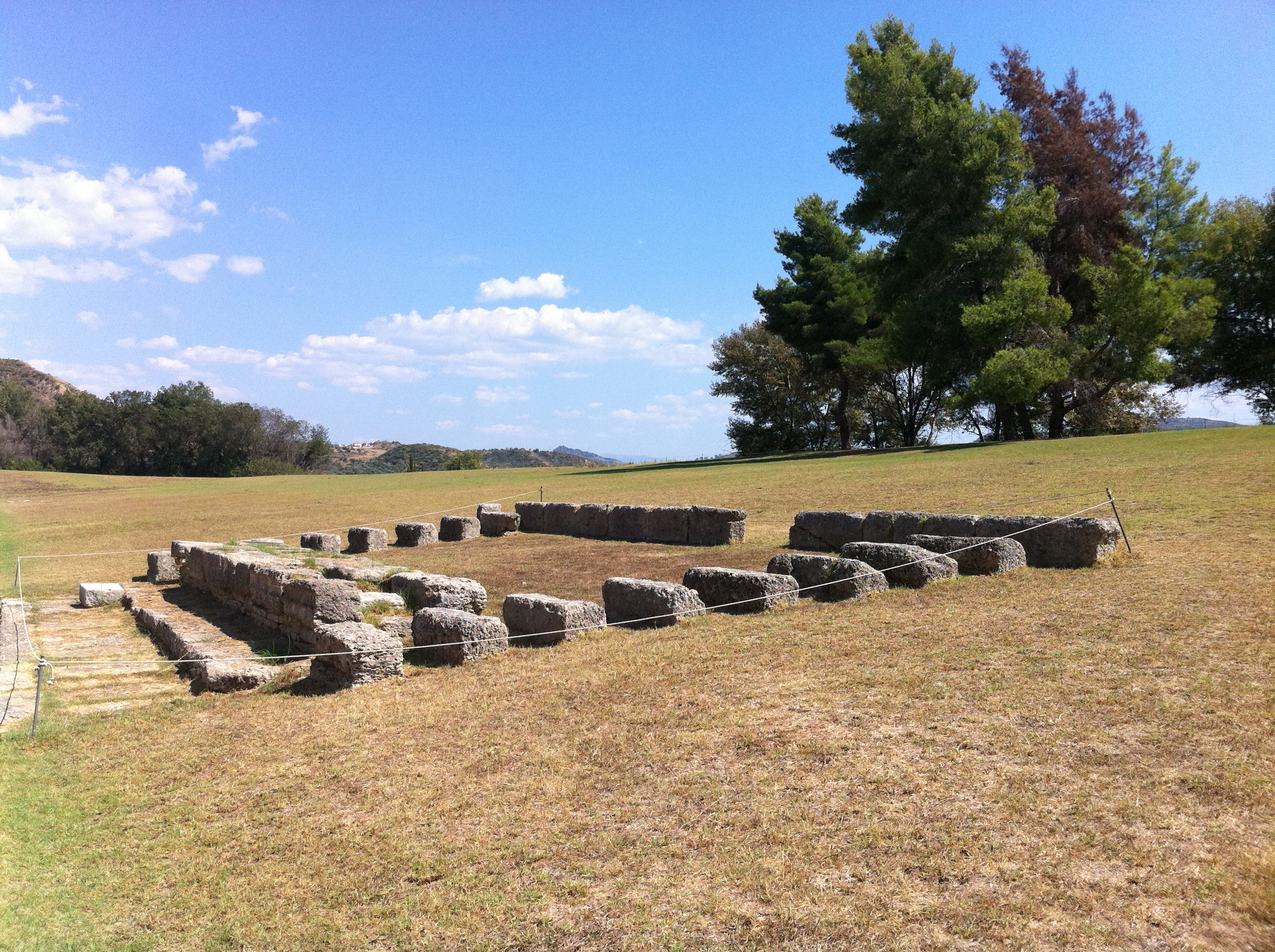 Judges stand inside the Olympic Stadium